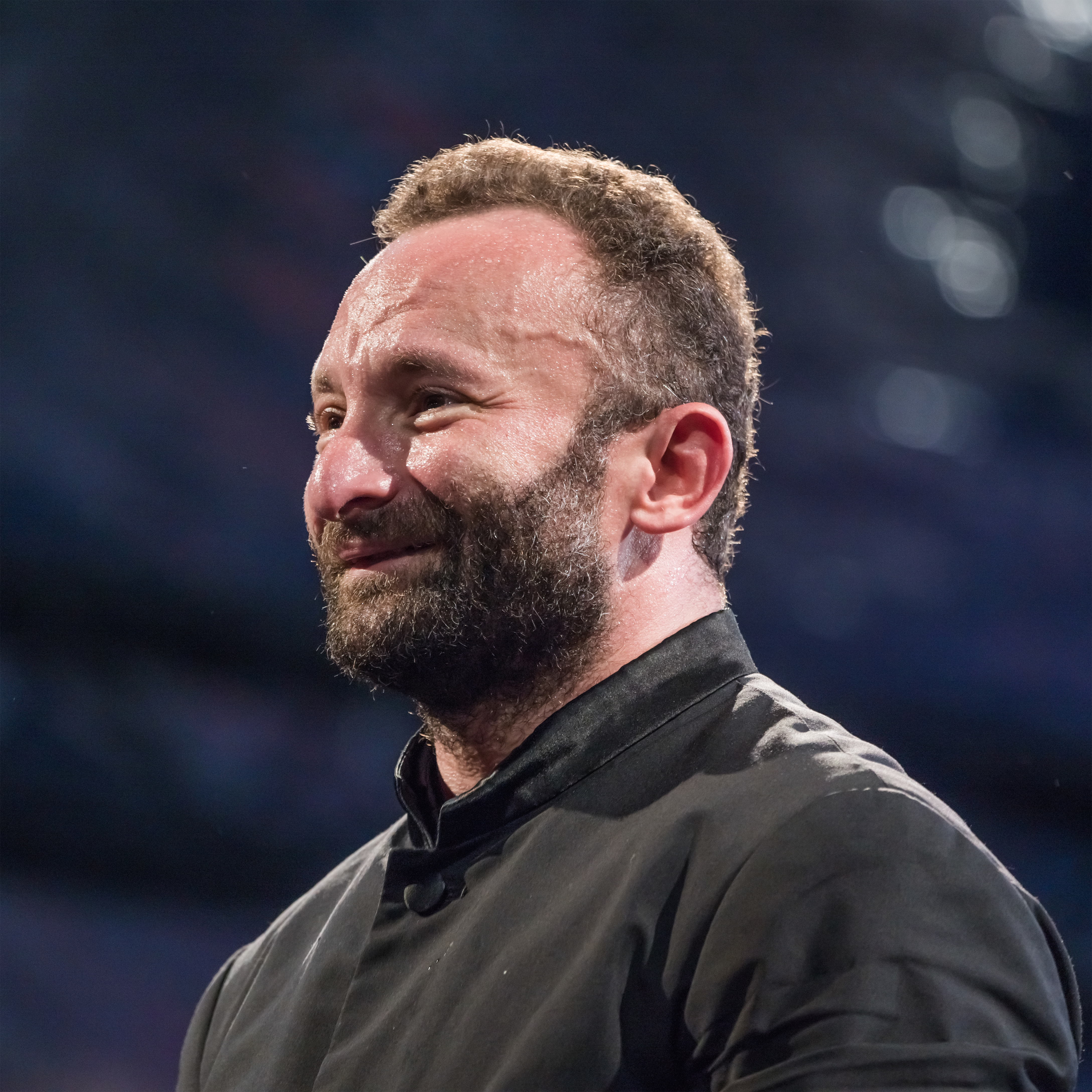 On 24 August 2019 the Berlin Philharmonics gave an open air concert at Brandenburg Gate in Berlin, with an audience of nearly 35,000 people. The conductor was Kirill Petrenko from Russia. The orchestra performed Beethoven's Symphony No. 9 D minor Op. 125.